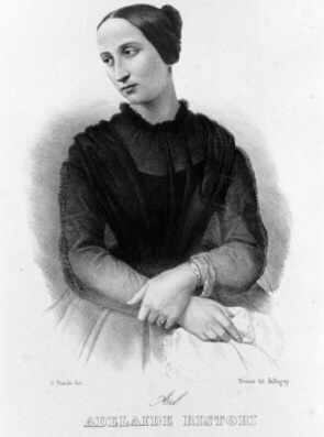 Italian actress Adelaide Ristori